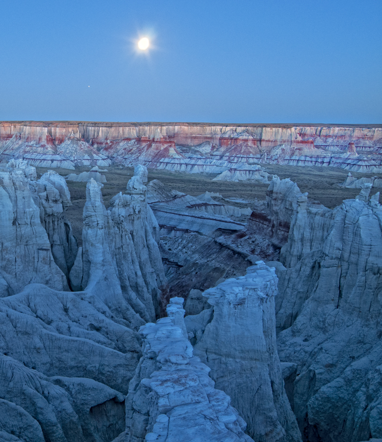 Hahonogeh Canyon, near Coal Mine Canyon, Navajo reservation. This is just about my favorite place in the world.